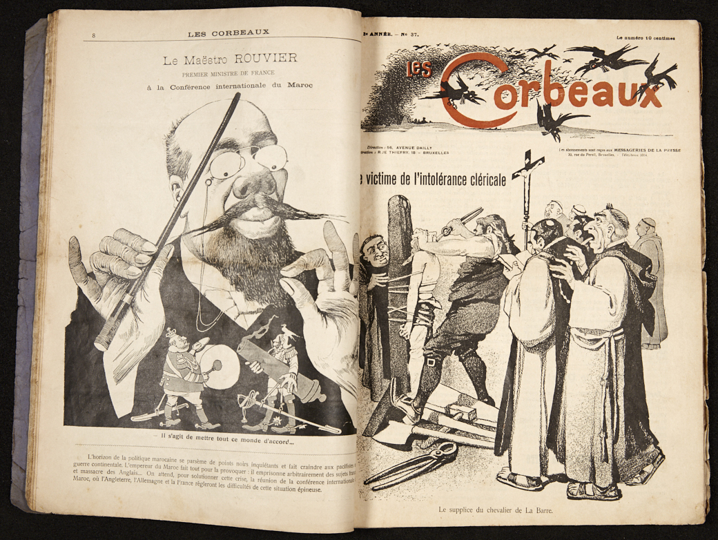 Les Corbeaux, journal satirique 1905